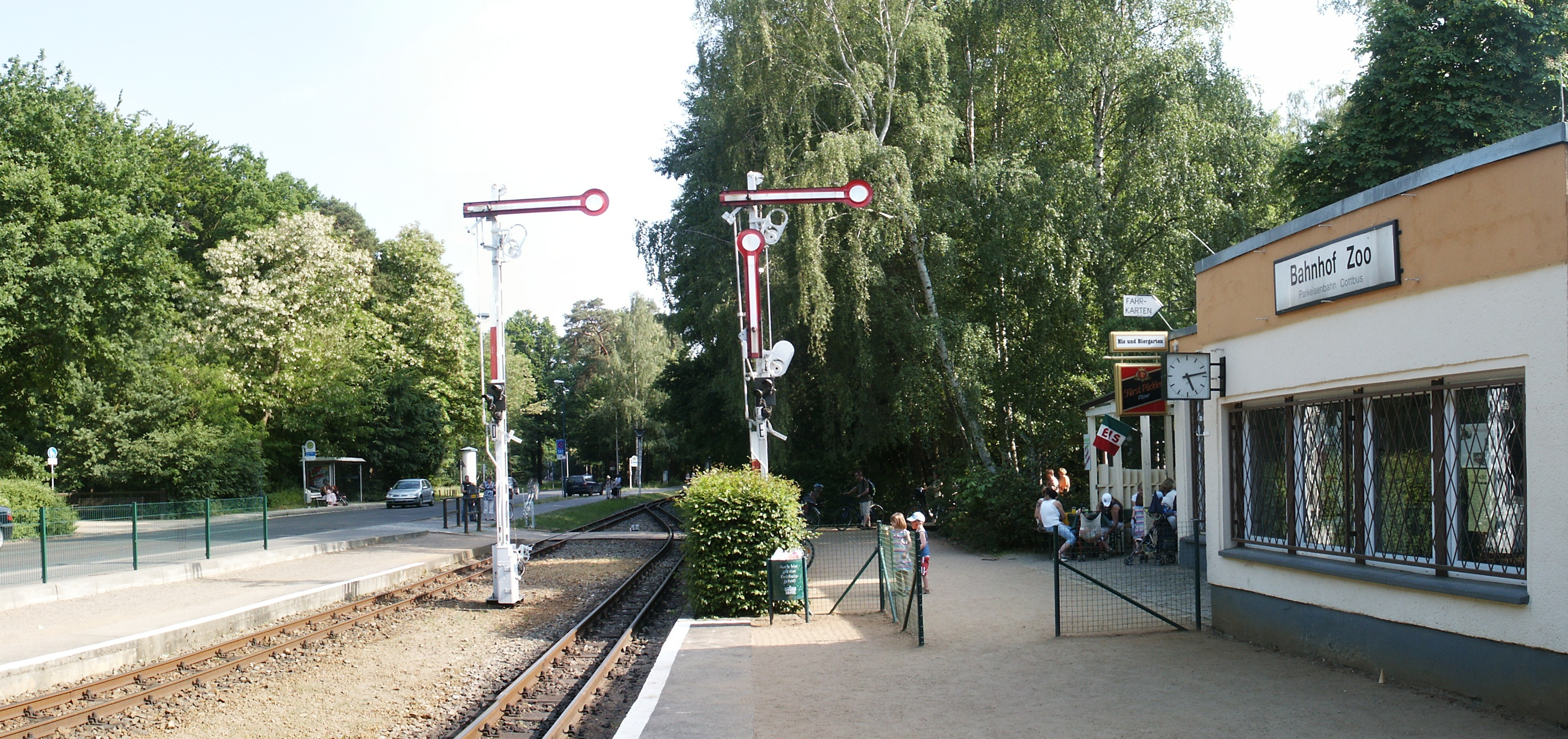 Light railway station at the zoo in Cottbus.